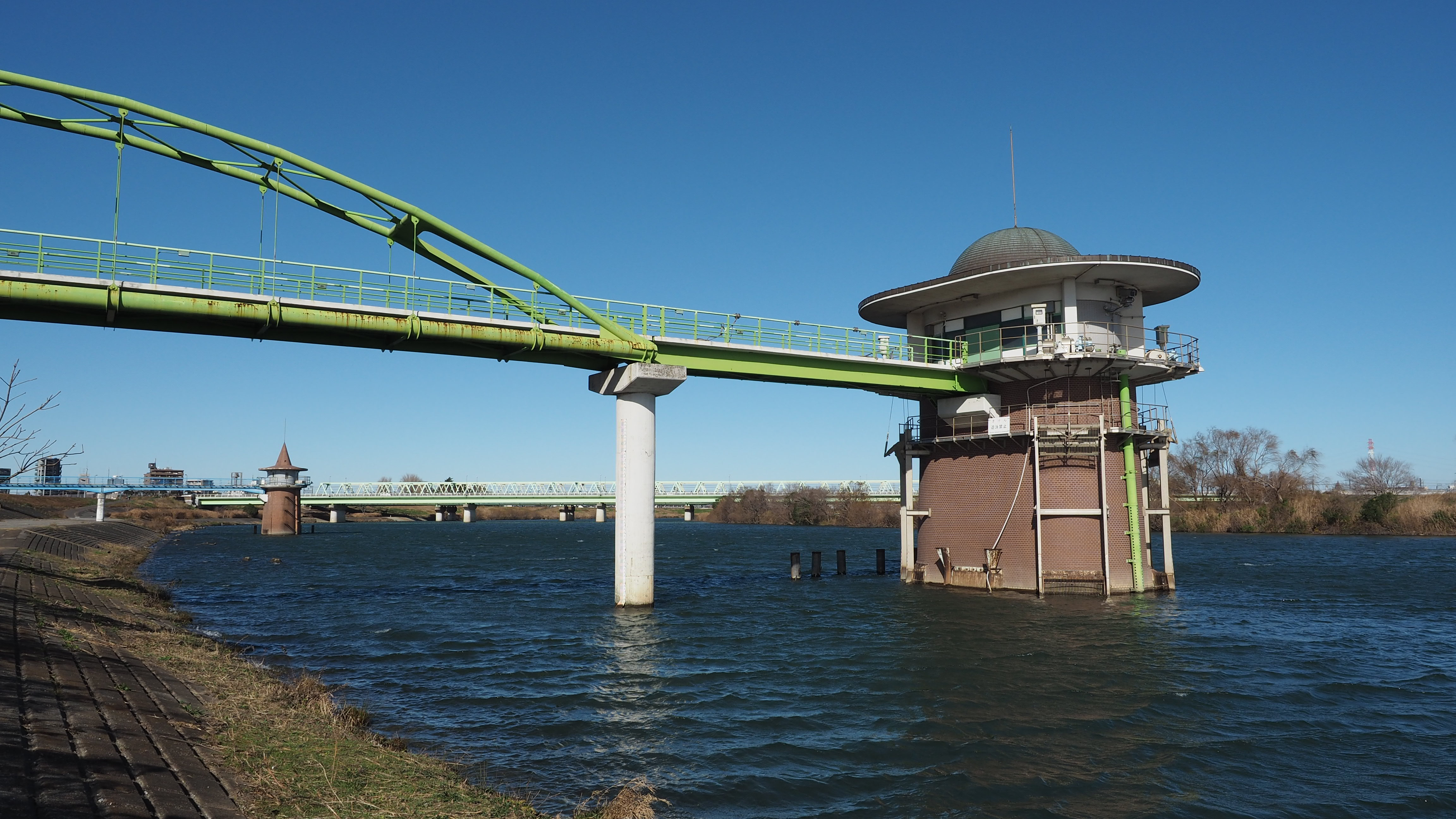 The No.3 water intake tower of Kanamachi water purification plant, Tokyo, Japan.